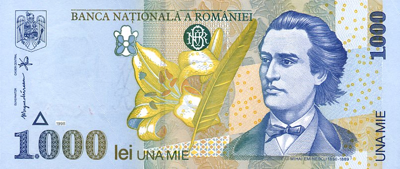 1000 Romanian leu from 1998 - obverse